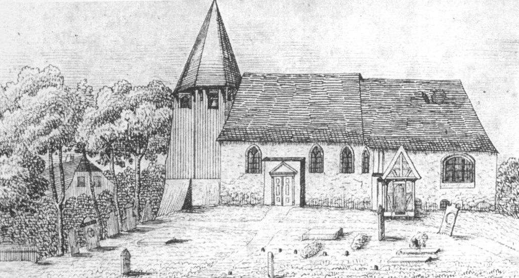 Haselau,Schleswig-Holstein (Germany), Church at about 1810- Lithograph , photo 2010